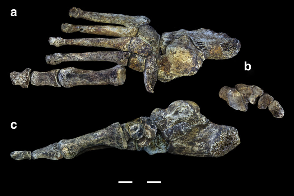 All elements belong to Foot 1. (a) Dorsal view. (b) Distal view of the cuneiforms and cuboid showing transverse arch reconstruction. (c) Medial view showing the moderate longitudinal arch. Scale is in cm.